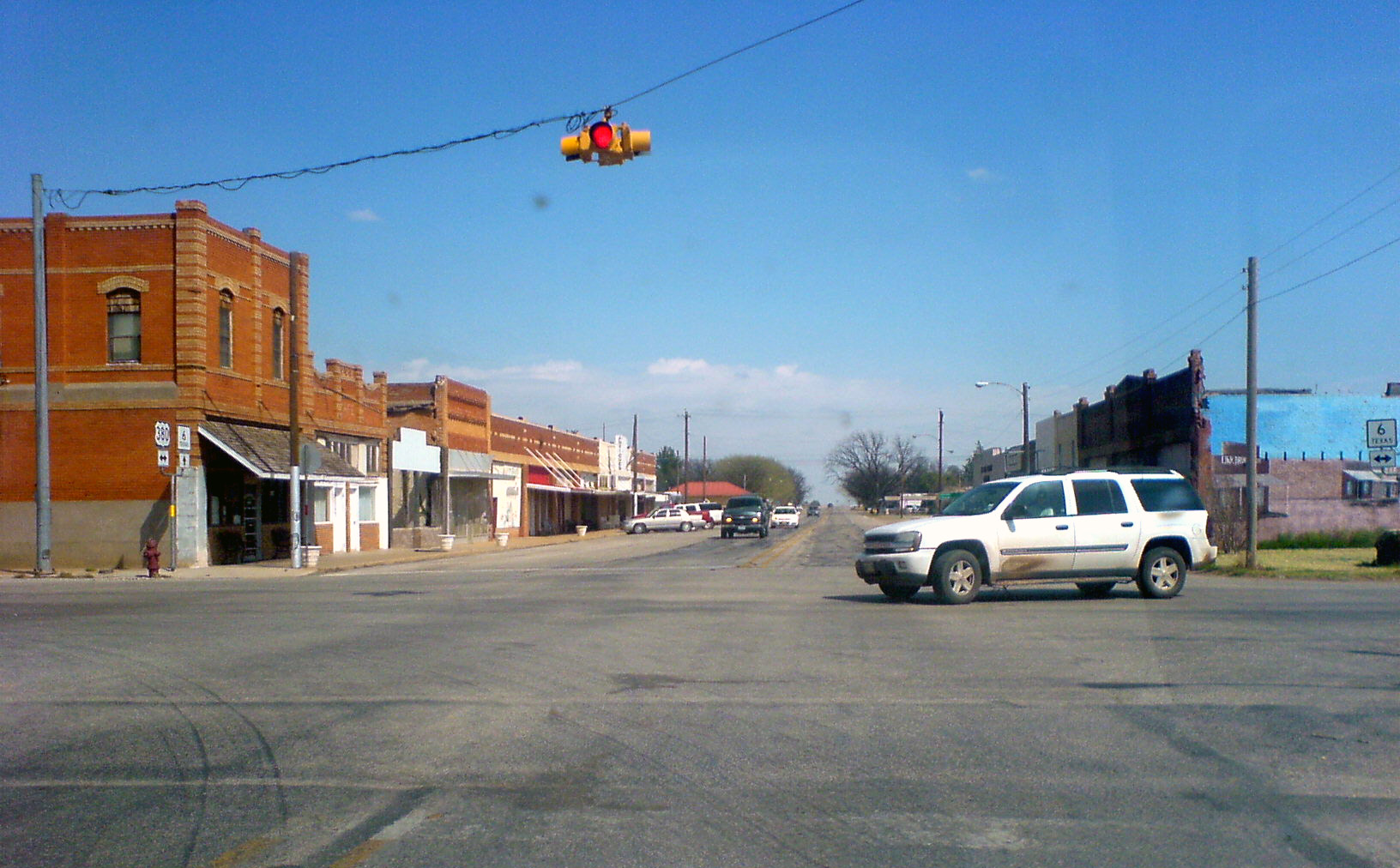 Downtown Rule, Texas looking east along US 380.